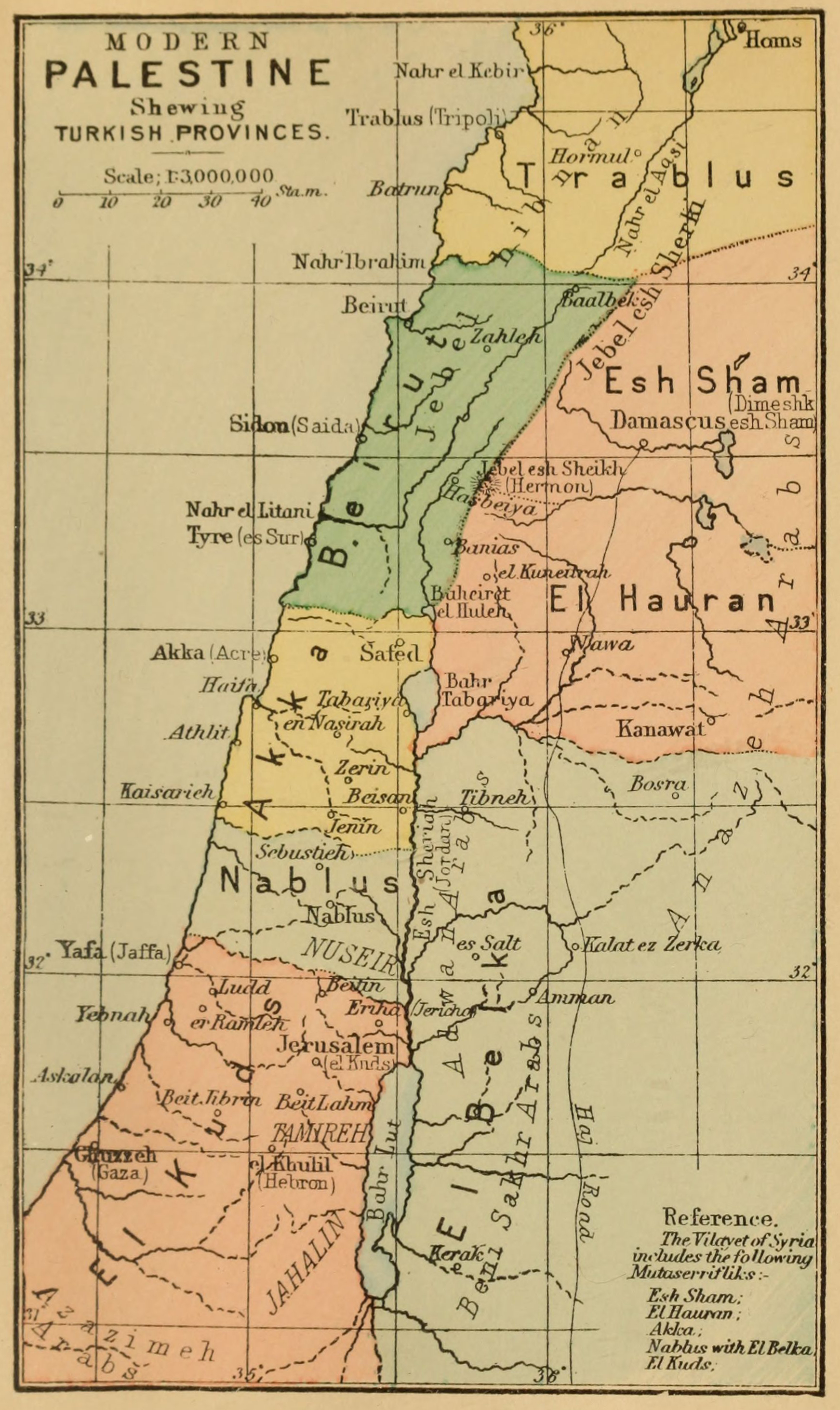 Scale: 1:3,000,000. From an 1889 book, Palestine, by Conder.